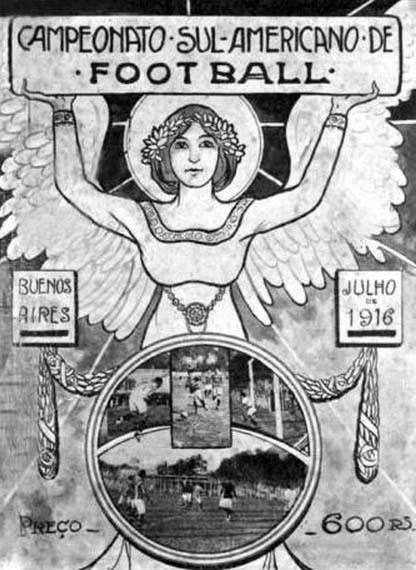 "Campeonato Sul-Americano de Foot Ball", Brazilian media art